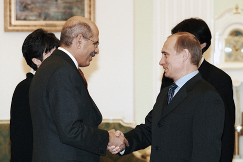 THE KREMLIN, MOSCOW. President Putin and Mohamed El Baradei, Director-General of the International Atomic Energy Agency (IAEA).